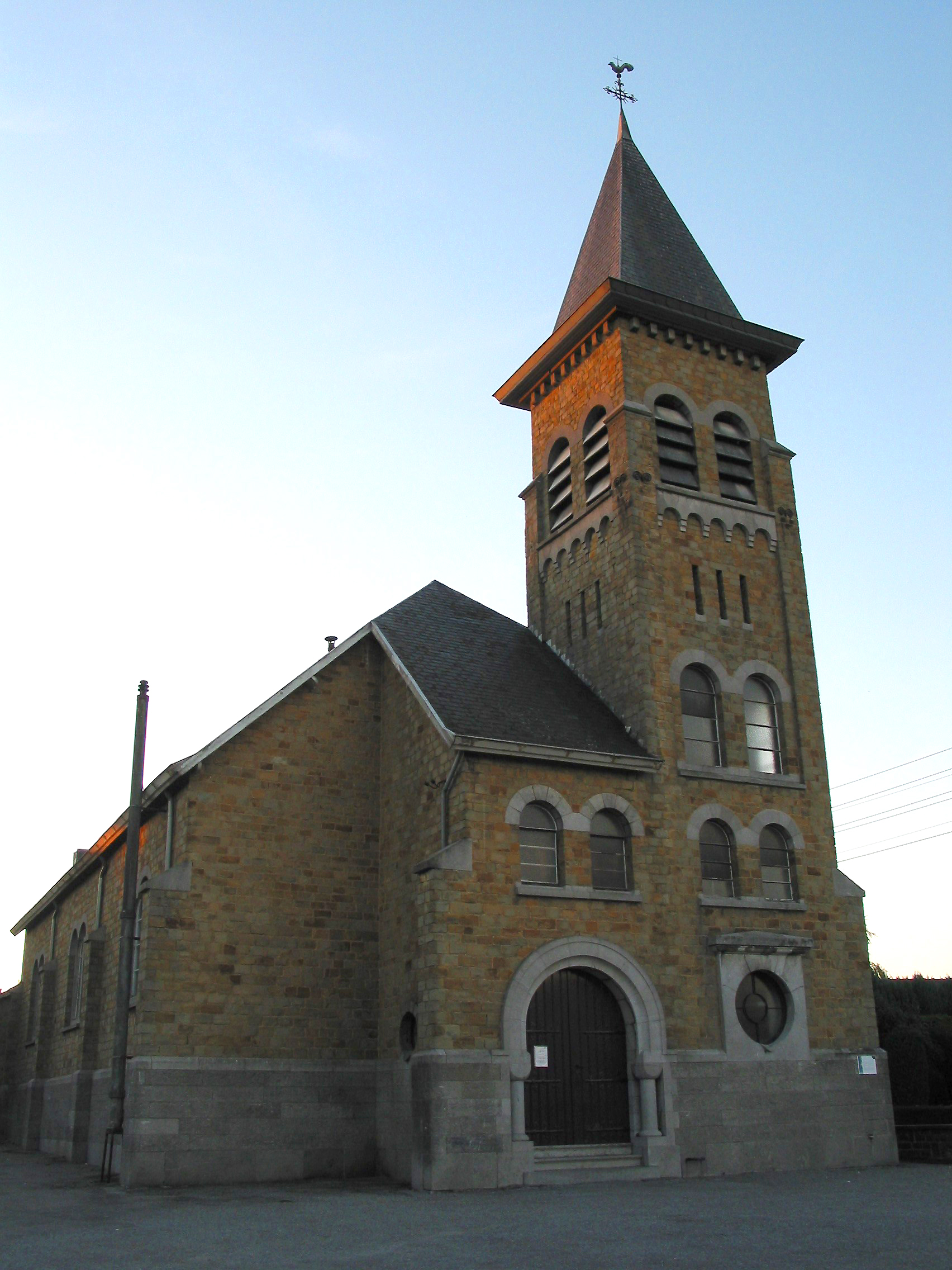 Sprimont (Belgium), the Our Lady of Lourdes chapel.